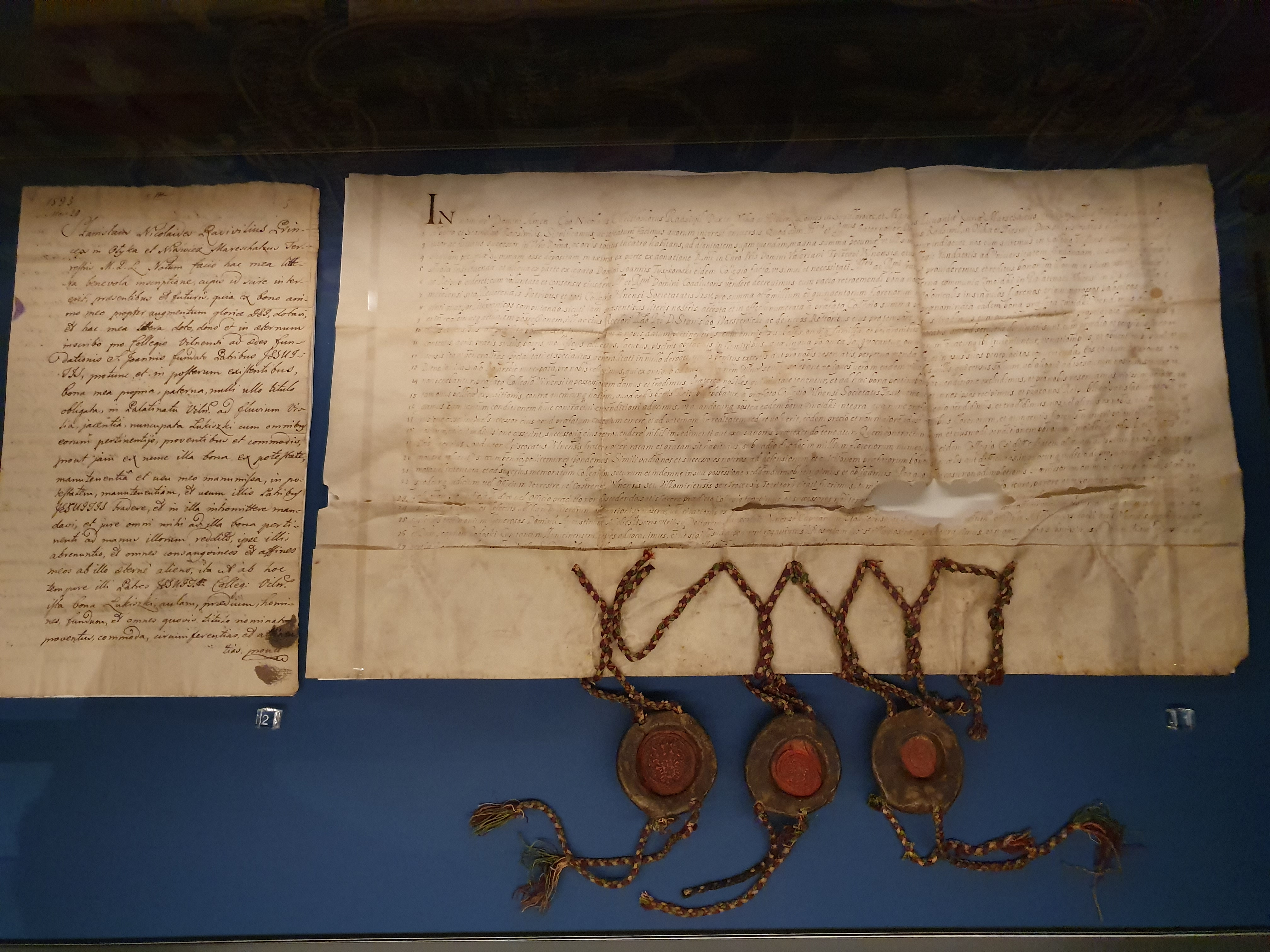 Numbered as 1. Notice of Prince Mikołaj Krzysztof "the Orphan" Radziwiłł, wherein he and his brothers sell the Žemaitkiemis Estate in Ukmergė District to the Vilnius Jesuit College for 8,500 golden zloty, retaining the right to repurchase. Vilnius, August 23, 1577. Numbered as 2. Notice in which the Lithuanian Grand Marshal Stanisław Radziwiłł (1559-1599), the son of Mikołaj "the Black" Radziwiłł and Elżbieta Szydłowiecka, donates Lukiškės to the Vilnius Jesuit College. Warsaw, May 20, 1593 (date of the original). The notices were photographed during an exhibition at the Palace of the Grand Dukes of Lithuania.